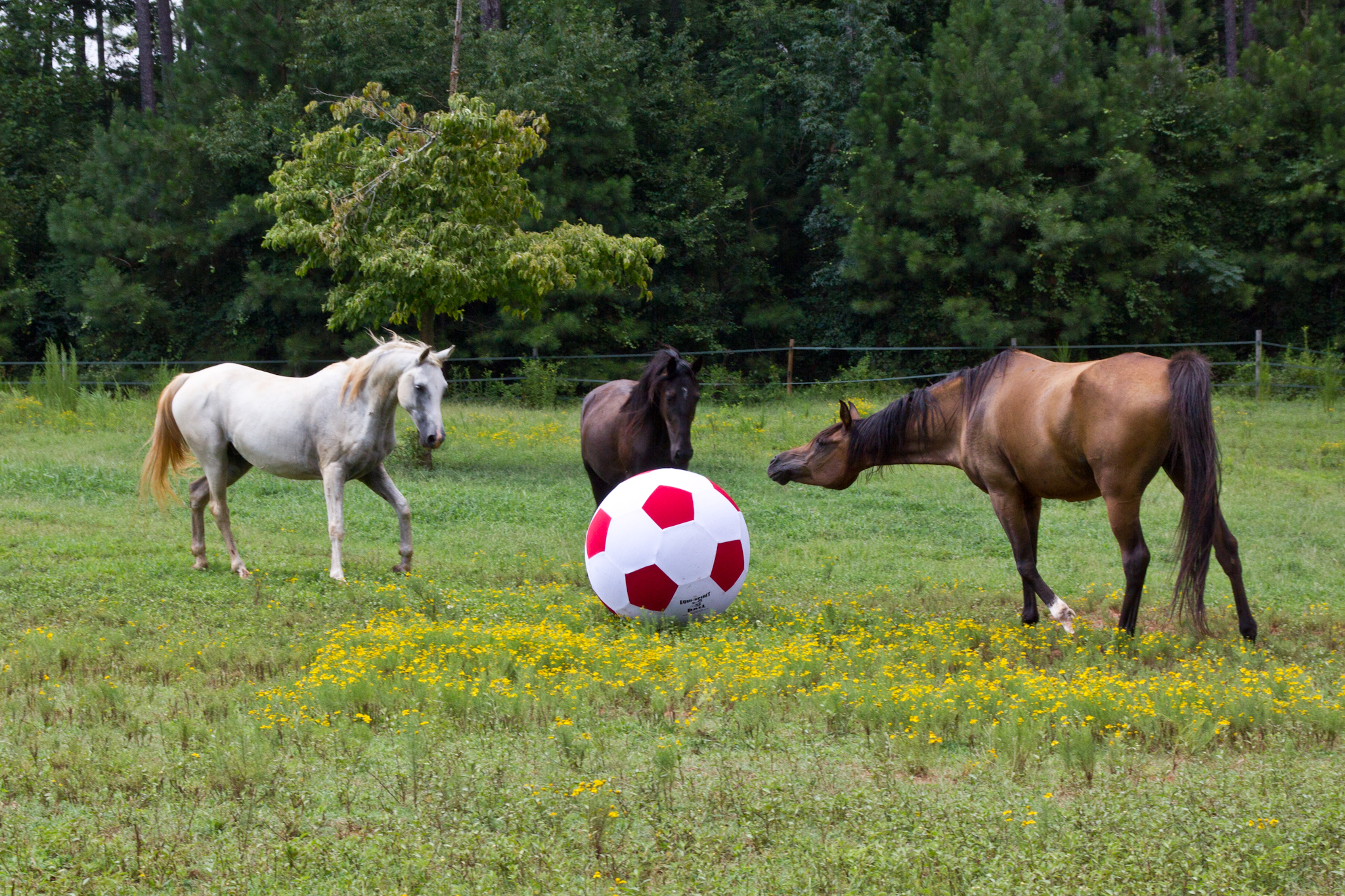 Three horses with big ball